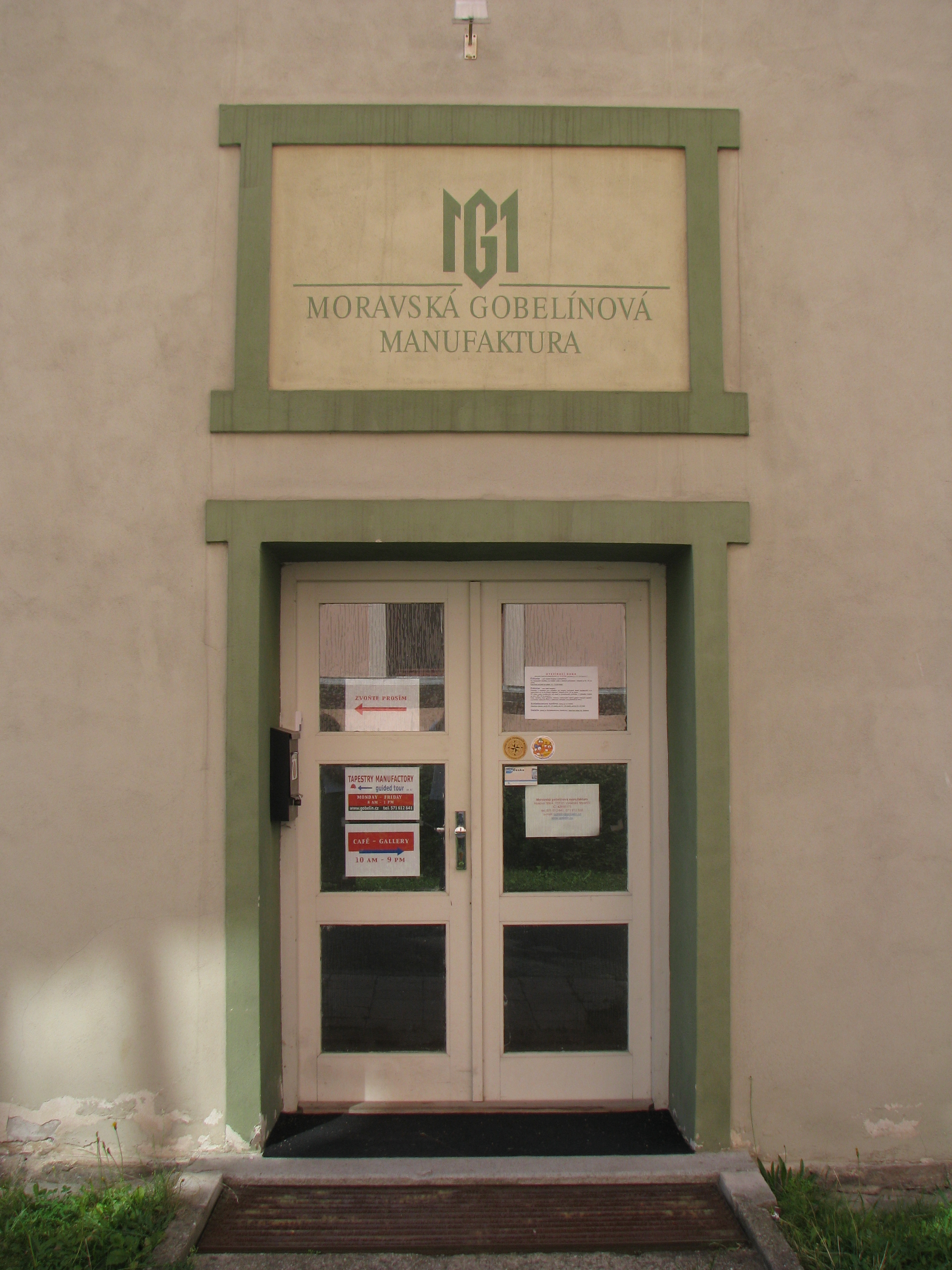 Entrance door to the Moravská Gobelínová Munufaktura, in Valašské Meziříčí, CZ.